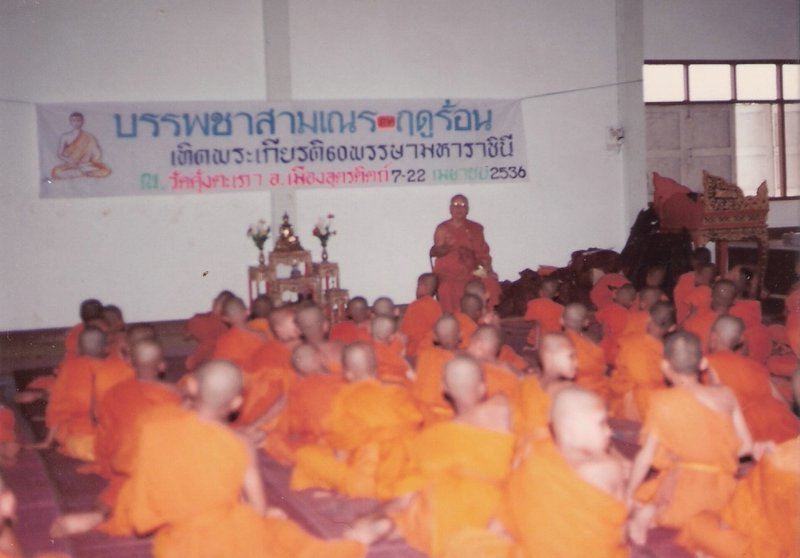 The abbot of a Buddhist monastery instructing novices, Uttaradit, Thailand.